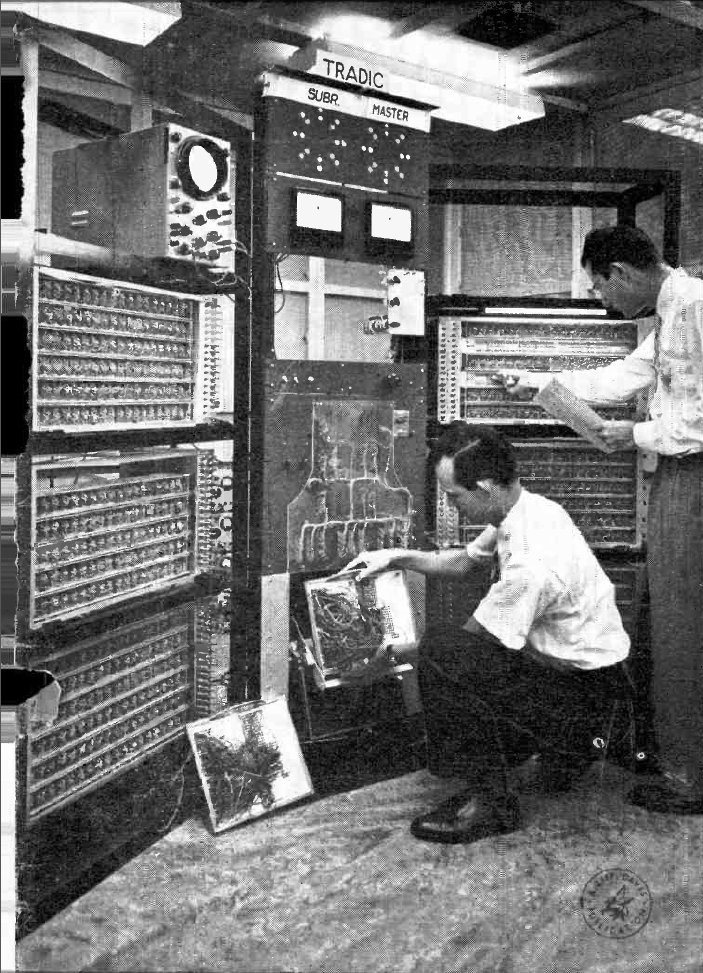 TRADIC (for TRAnsistor DIgital Computer or TRansistorized Airborne DIgital Computer), the first transistorized computer in the USA, completed in 1954. The computer was built by Jean Howard Felker (visible at left) at Bell Labs for the United States Air Force, intended as a prototype for aircraft navigation and bomb targeting computers. Alterations to image: a small piece is torn out of the paper original along lower left edge.